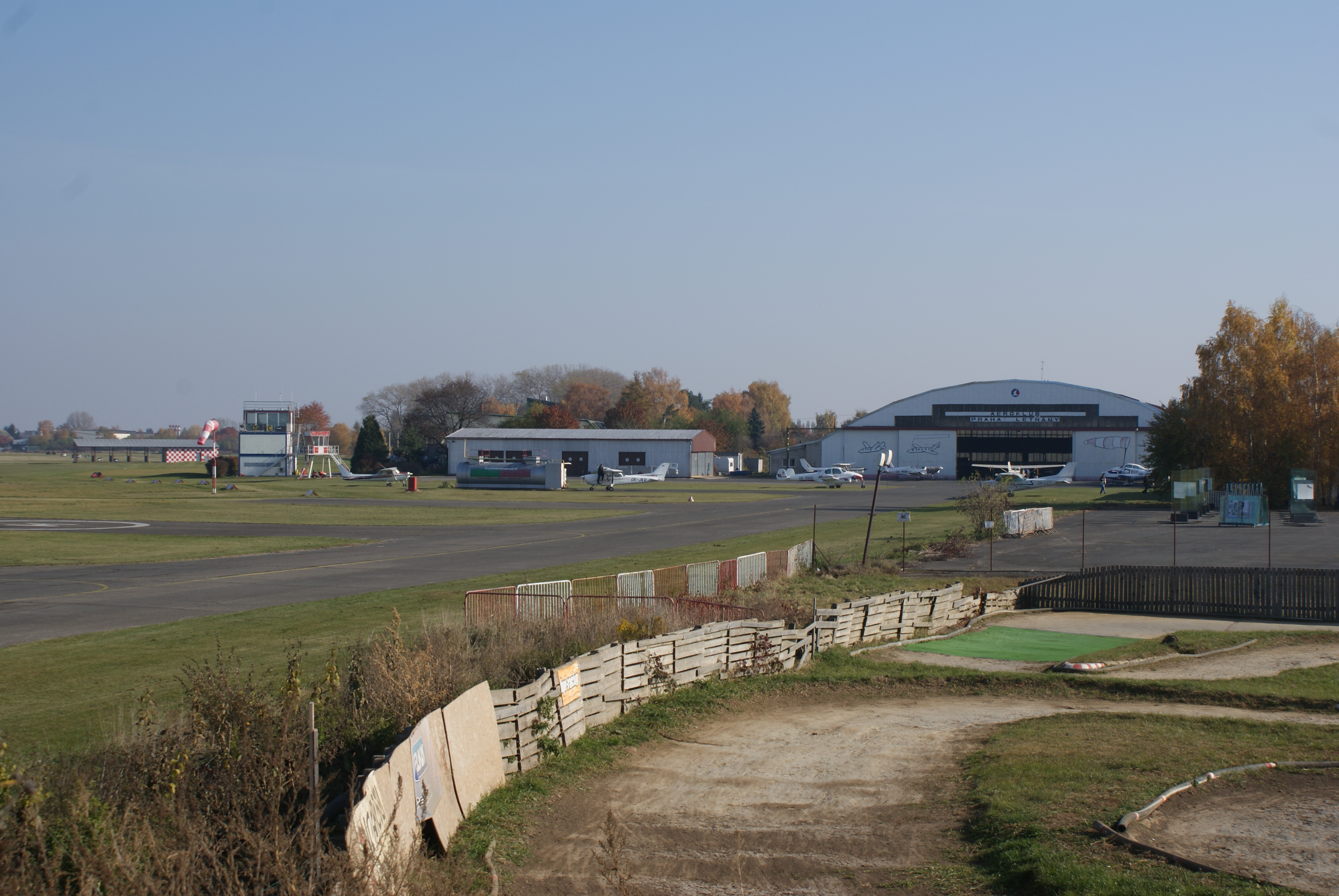 Letňany, Prague 9, airfield.